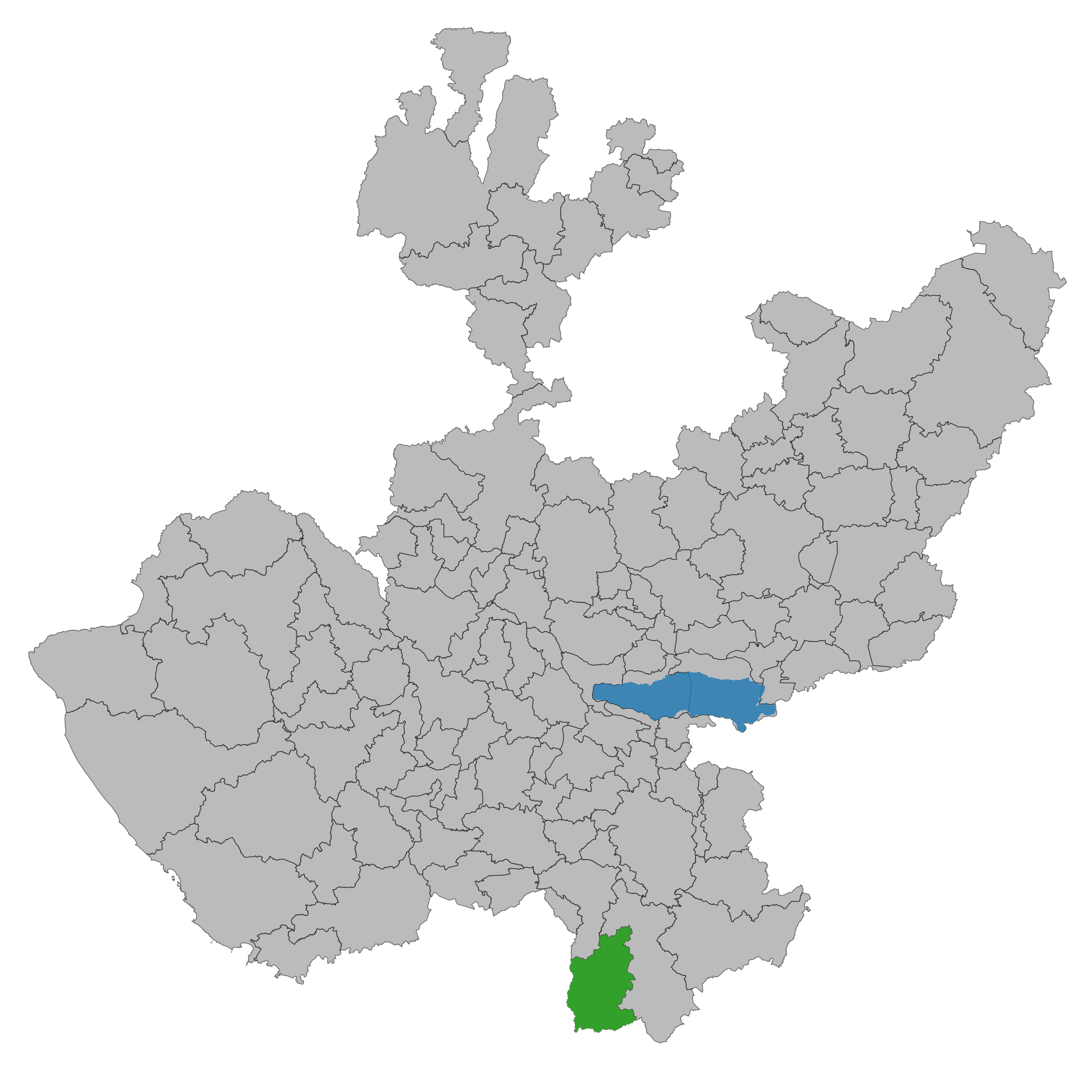 Municipality of Jalisco. Prepared with the software QGIS version 2.8.2 Wien & with information of SCINCE 2010 version 05/2013